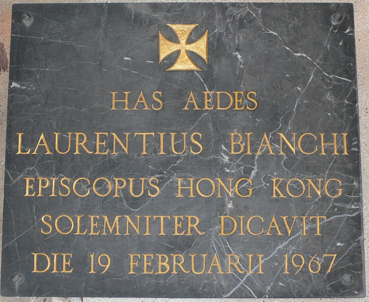 The Foundation Stone of the Main building of Holy Spirit Seminary College